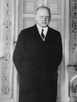 Joseph Goebbels and the German Ambassador von Moltke visiting Piłsudski on June 15, 1934. Polish Foreign minister Józef Beck at the right. Factual corrections and alternative descriptions are encouraged separately from the original description. Additionally errors can be reported at this page to inform the Bundesarchiv. Original historic description: UBz: den polnischen Marschall Pilsudski am 15.6.1934 während eines Empfanges (v.l.n.r.: deutscher Gesandter in Warschau, von Moltke, Hans; Marschall Pilsudski, Goebbels und der polnische Aussenminister Oberst Josef Beck).